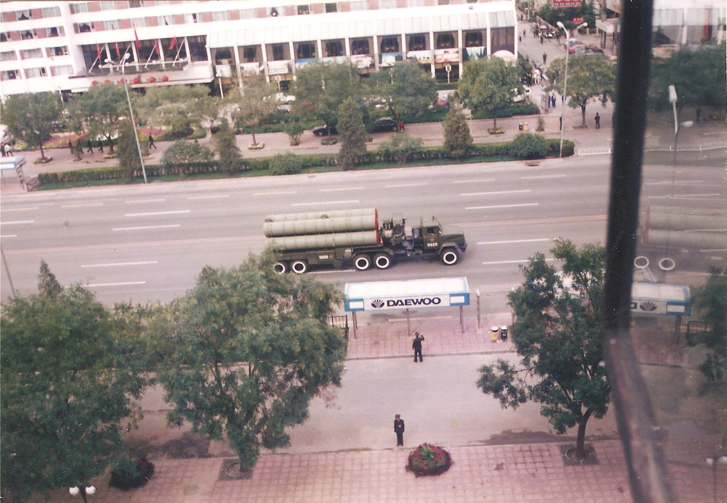 50th anniversary of the People's Republic of China, taken in my apartment, opposite of Jinglun hotel, when I was 5 years old.